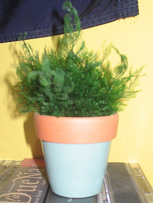 Cropped, slightly sharpened version of an image I took myself